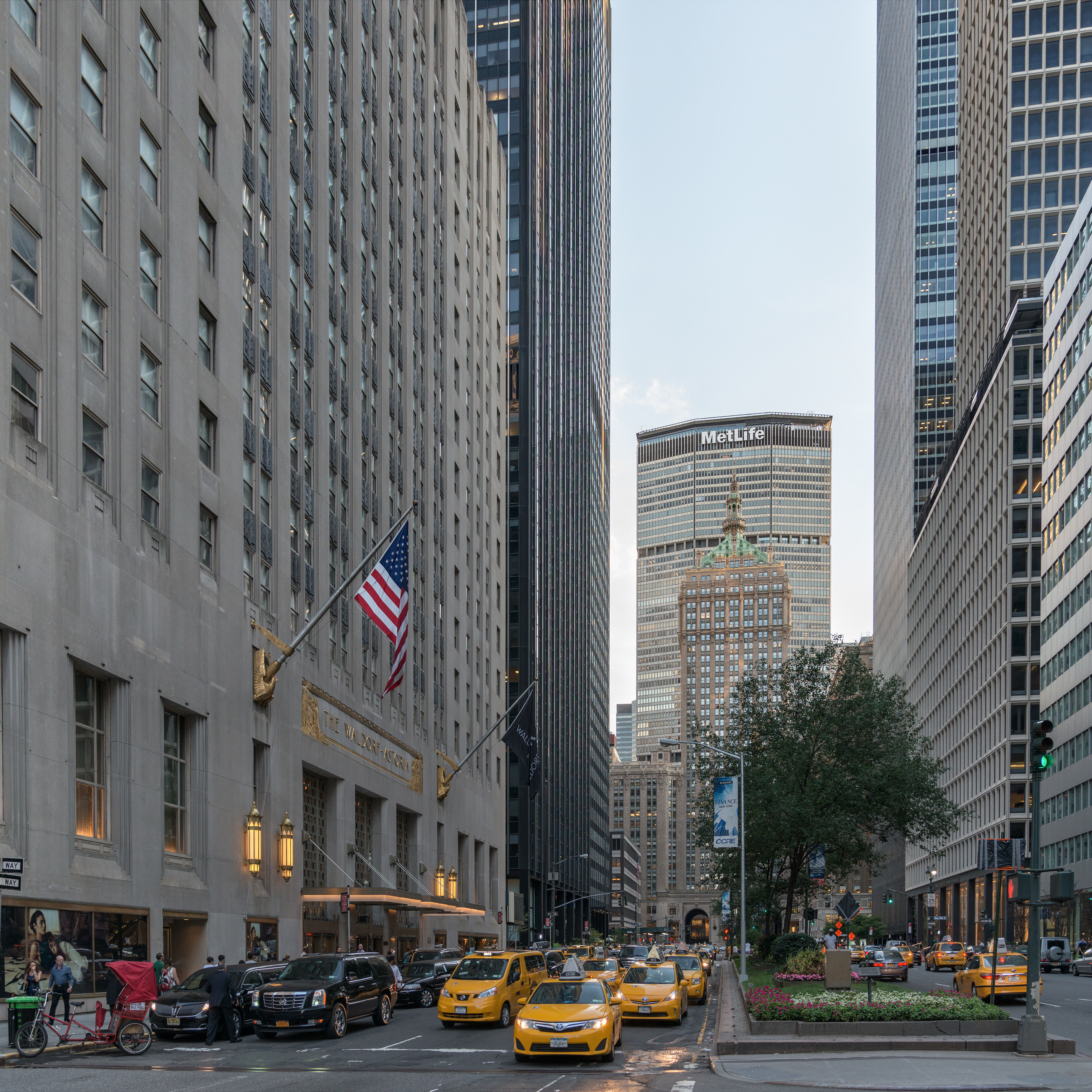 MetLife Building - New York, NY, USA